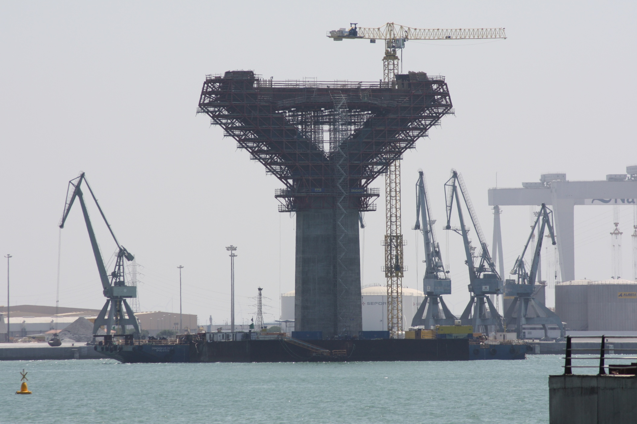 La Constitución de 1812 Bridge over the bay of Cadiz in Spain